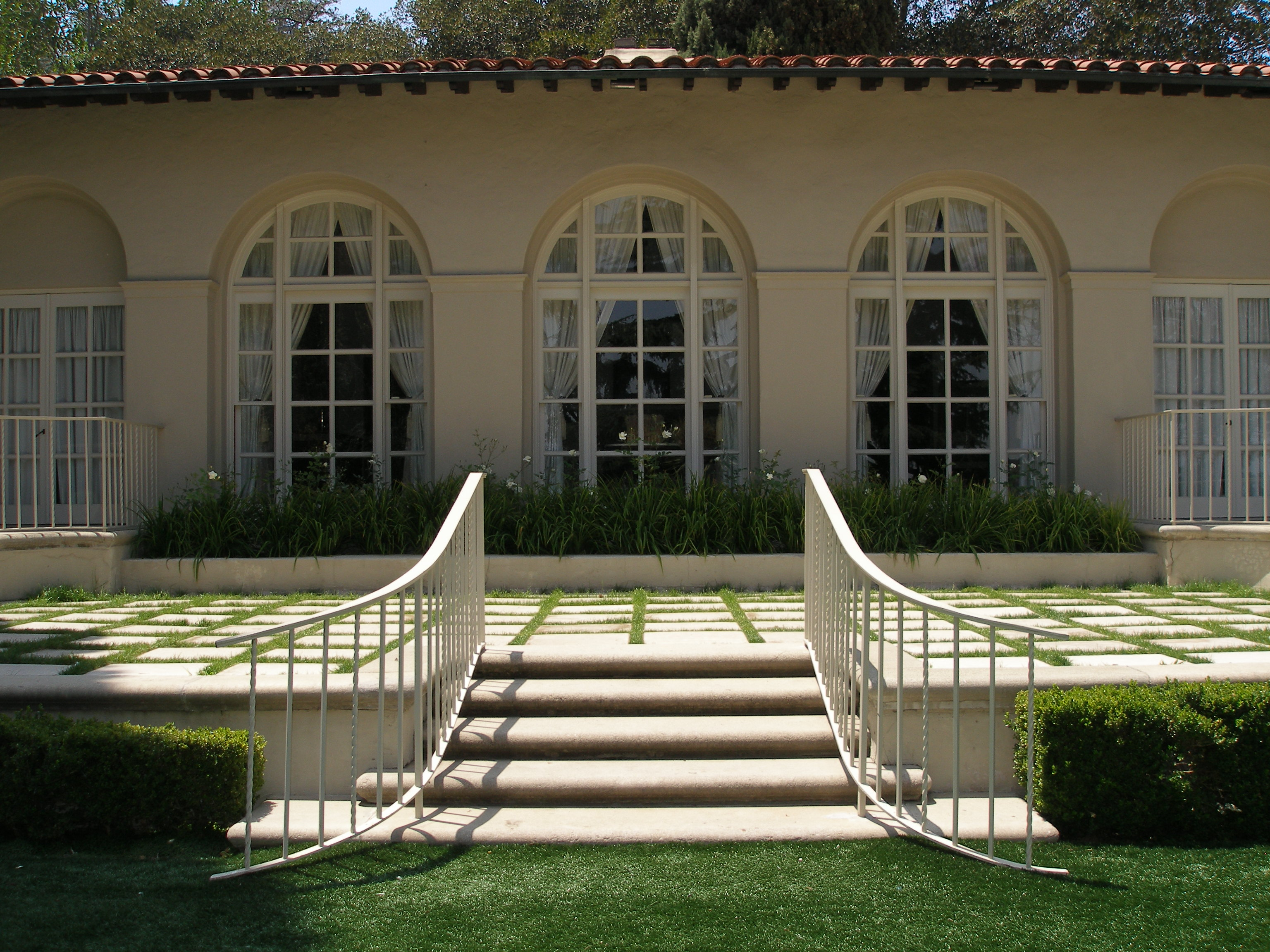 The Kellogg mansion.